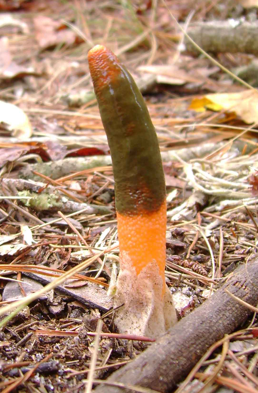 The "devil's dipstick", species Mutinus elegans (Mont.) Fisch. Photographed in New Port Richey, Pasco County, Florida, USA.